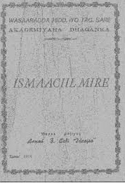 Ismail Mire's Biography